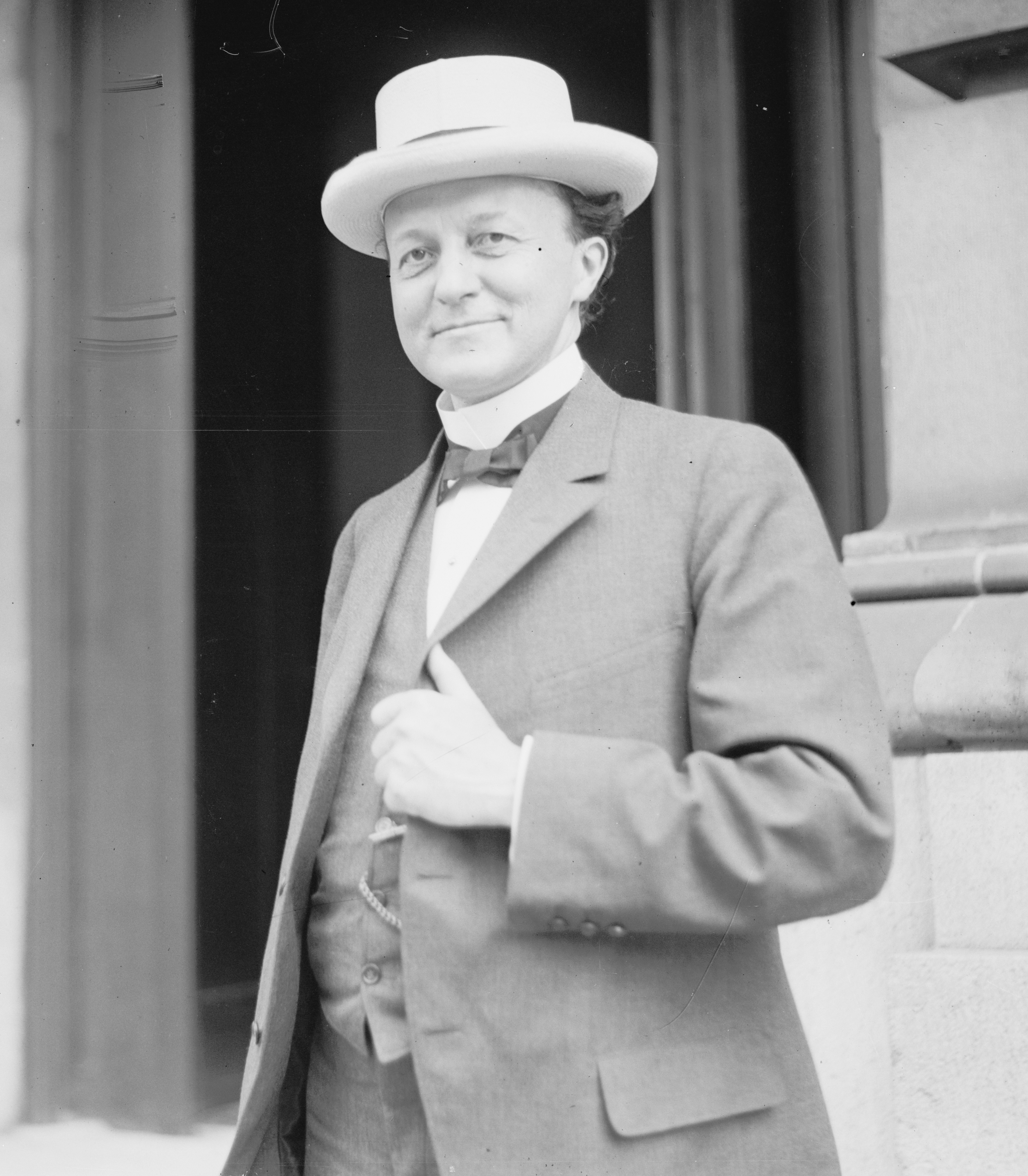 Senator Atlee Pomerene of Ohio standing, wearing a white hat.